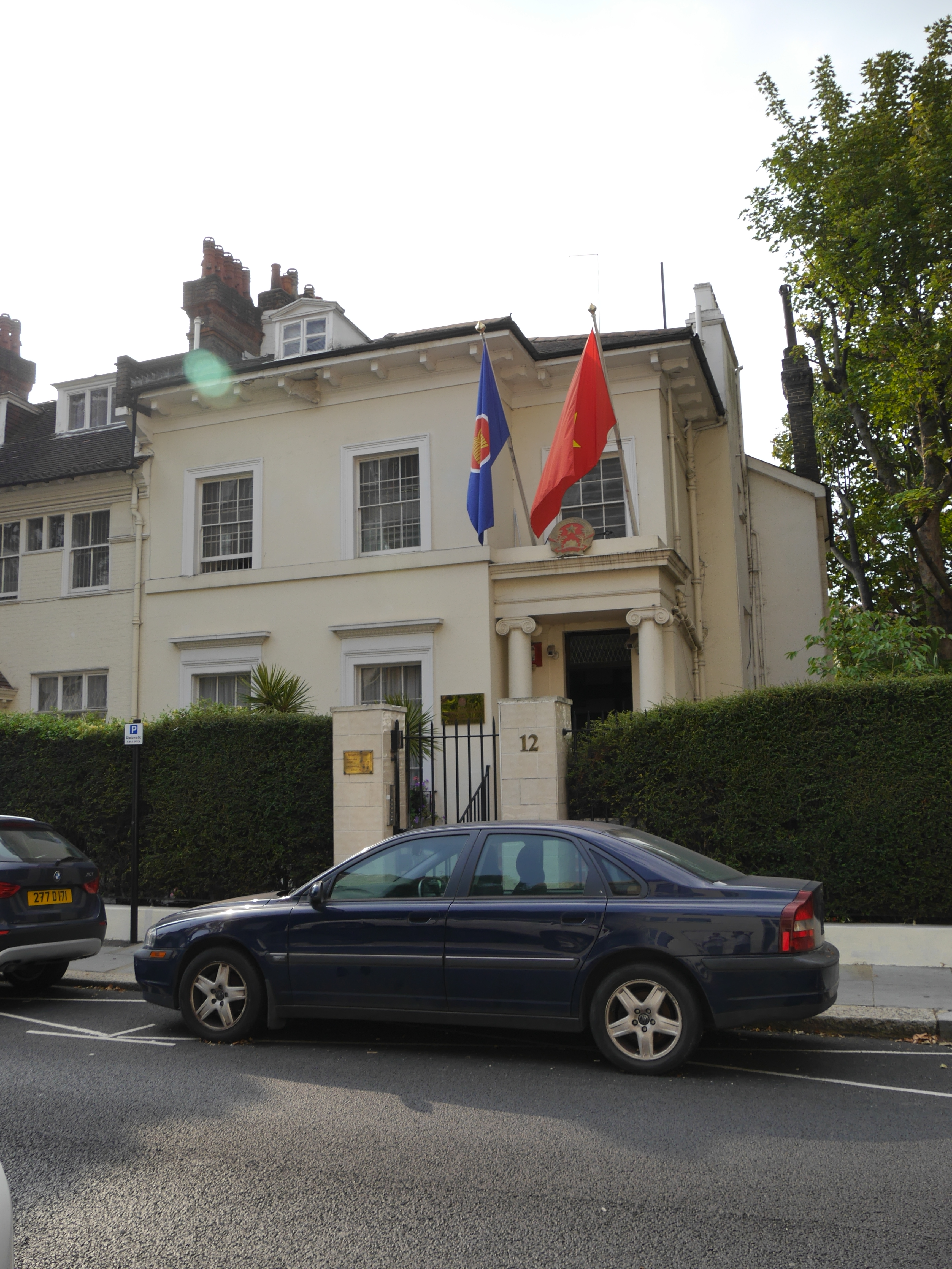 Embassy of Vietnam, London, September 2016